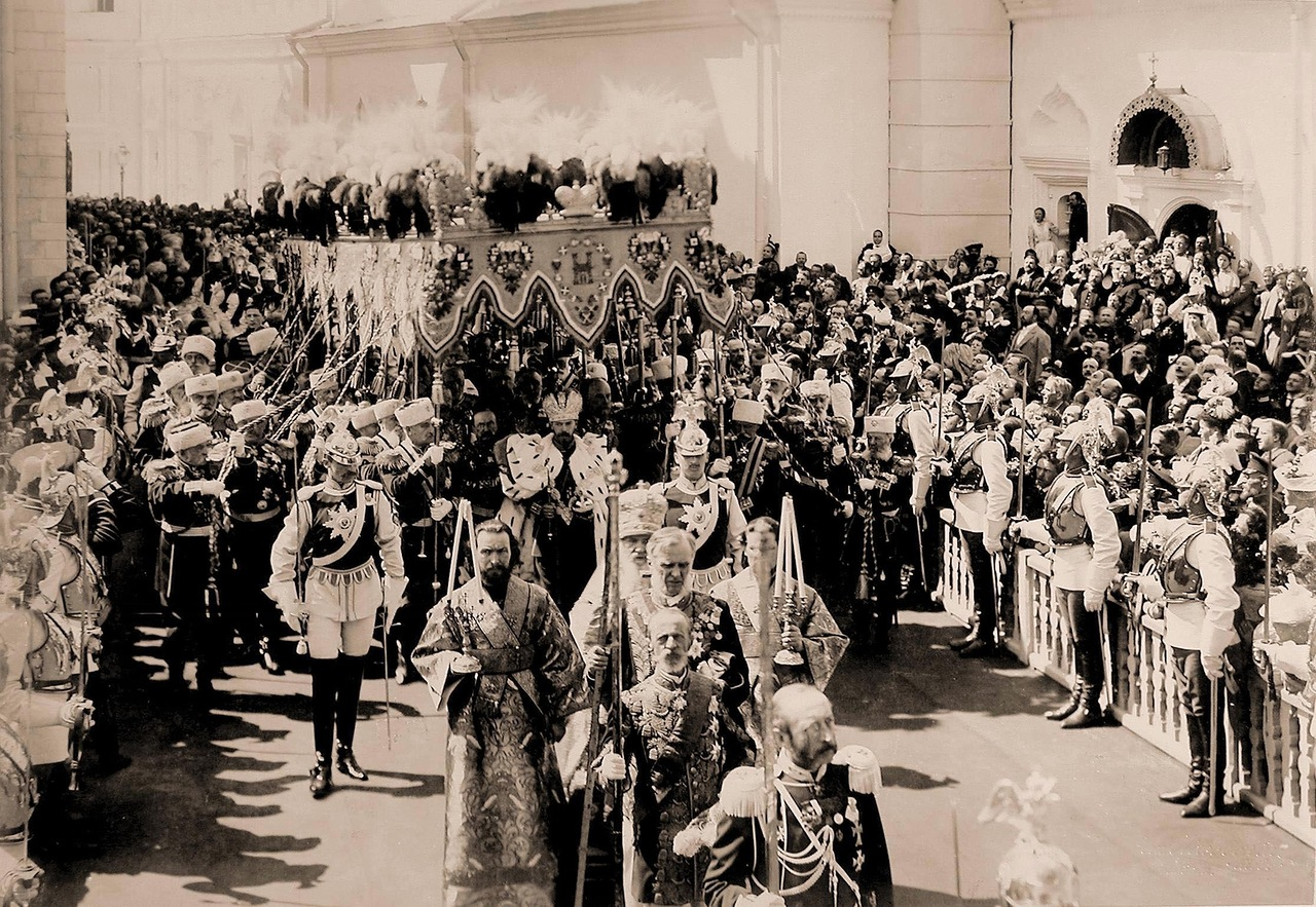 Tsar Nicholas II leaves Uspensky Cathedral following his coronation. Procession under coronation canopy.